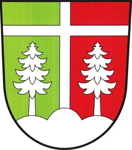 znak obce Žlebské Chvalovice